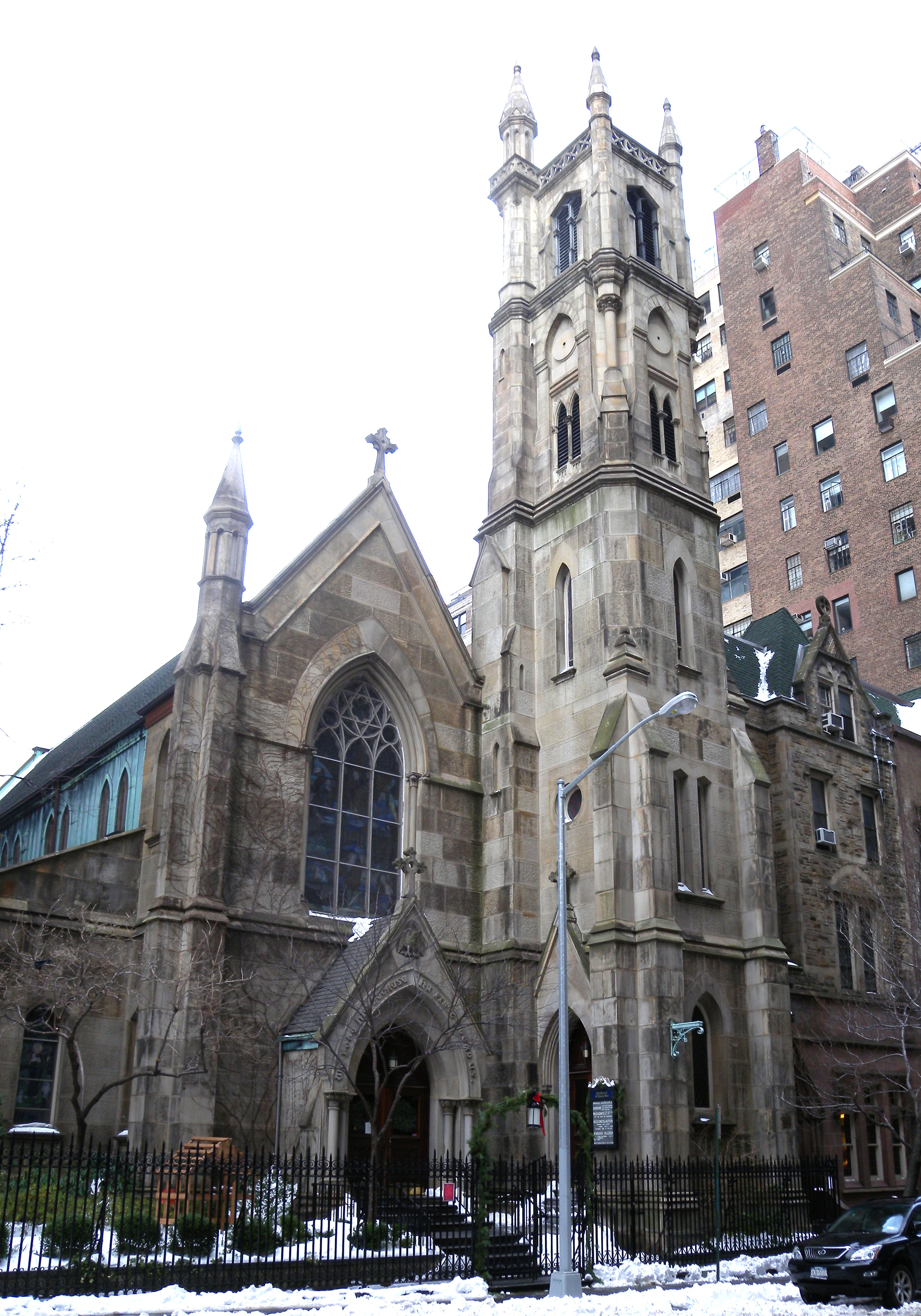 Looking northeast across 89th Street at St. Thomas More's Church (New York City), originally owned by the Protestant Episcopal Church as the Chapel of the Beloved Disciple, on a cloudy afternoon. ZIP 10128.